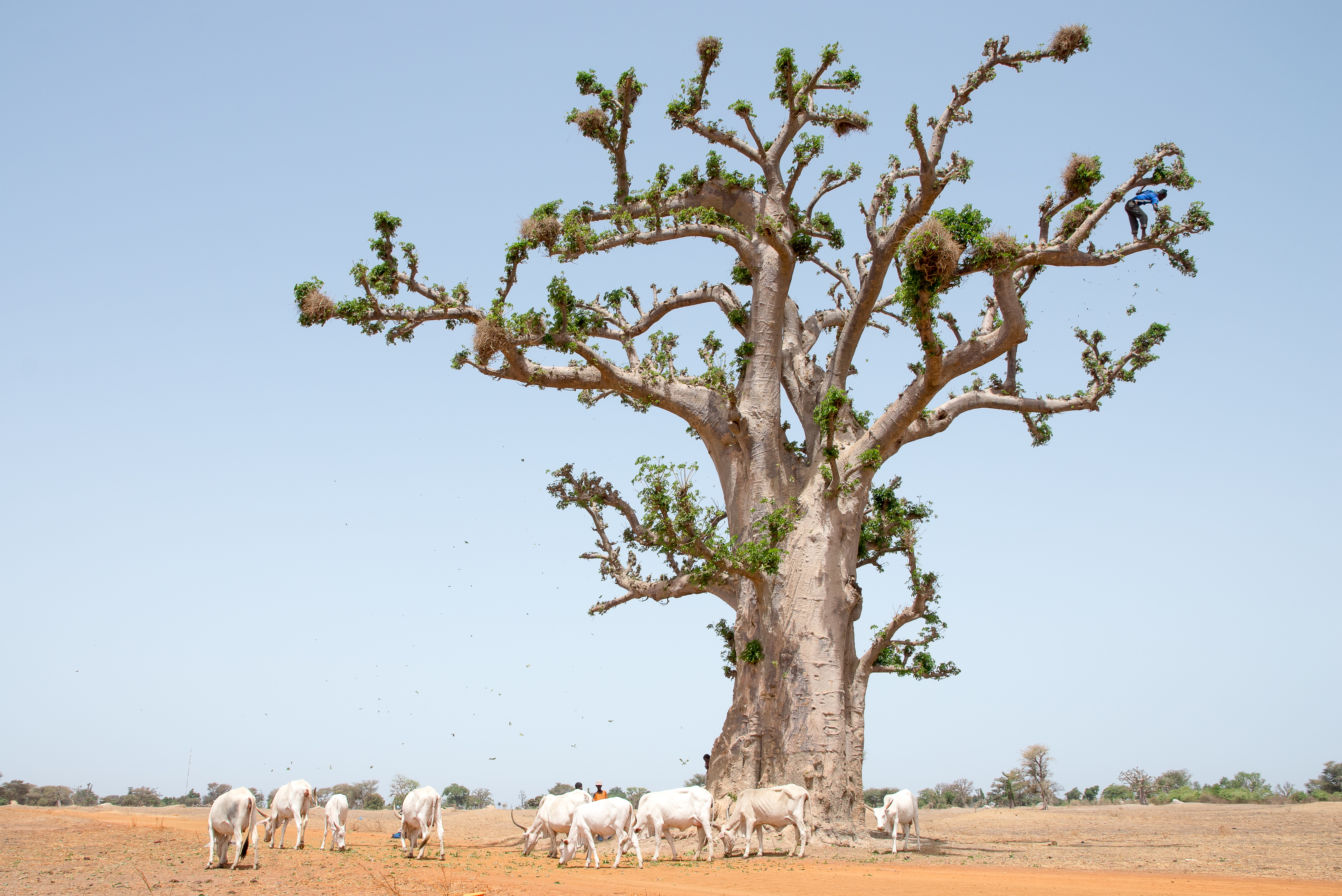 In an example of silvopastoralism, a Serer cowherd (top right) harvests foliage from a baobab (Adansonia digitata) to feed his livestock. Even in heavily deforested parts of the Sahel, baobab trees often remain as a valuable source of forage, leafing out several months in advance of short rainy season. To harvest the nutritious leaves, herders climb the ancient trees without the aid of ropes or ladders, trimming the foliage with a machete. This is an image of "African people at work" from Senegal